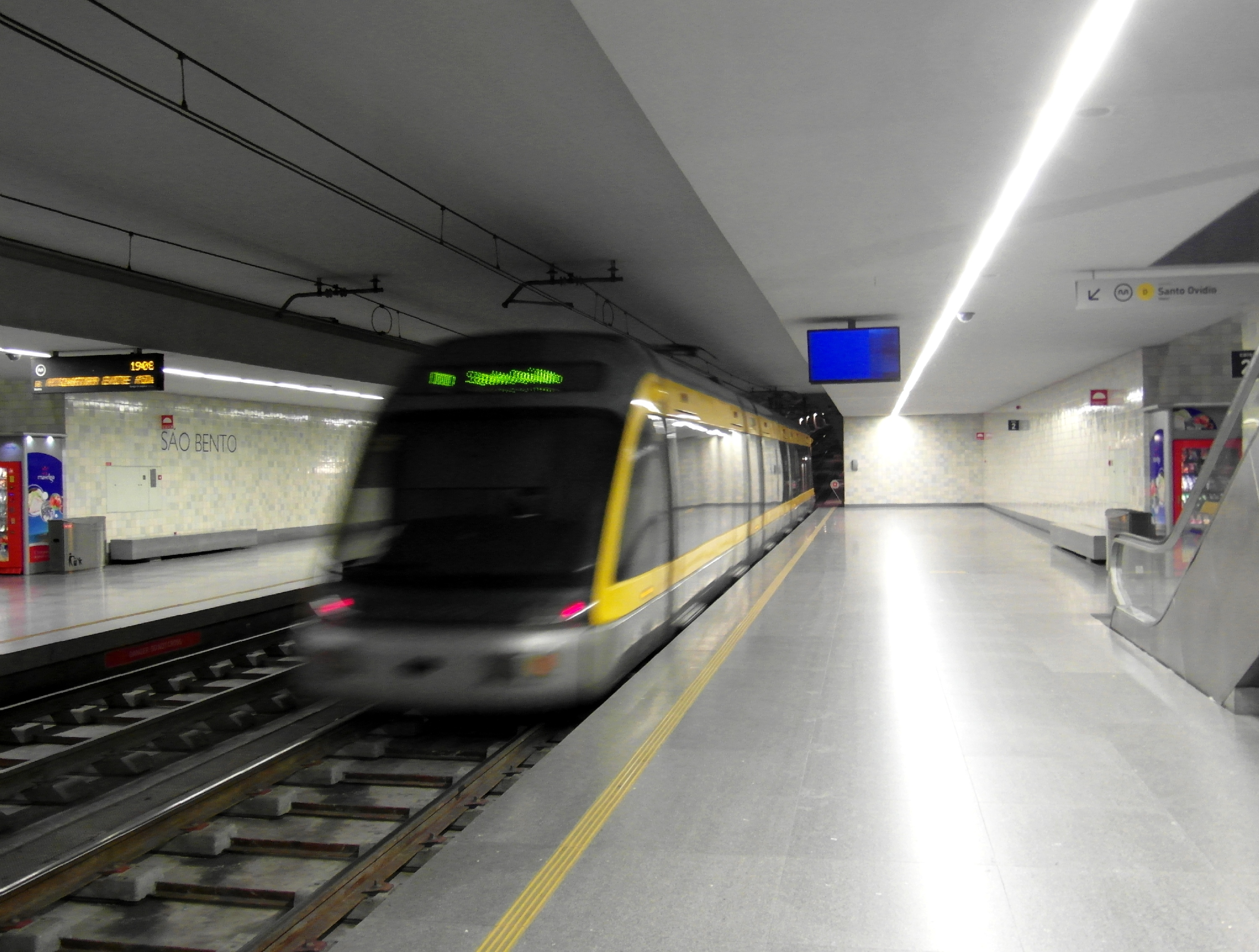 Stadtbahn Porto - Oportp light rail